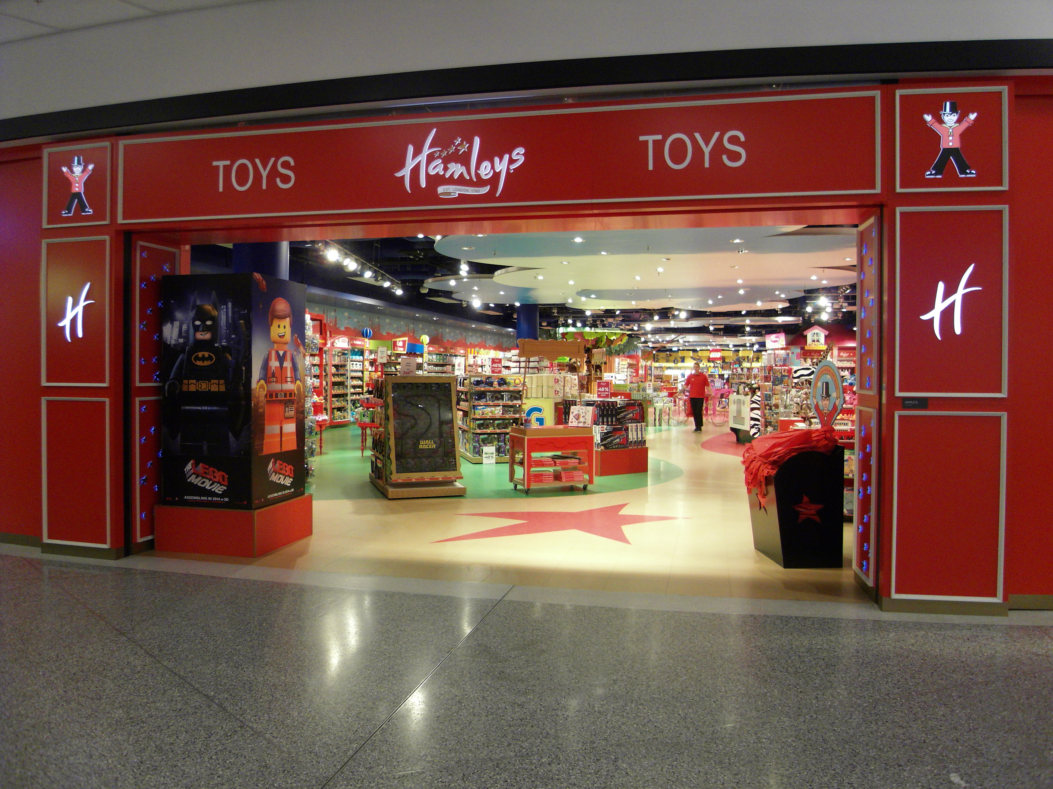 A Hamleys store, a toy store at the shopping mall Emporia in the city of Malmo.